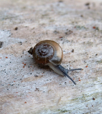 The landsnail Zonitoidus nitidus crawling on a piece of wood